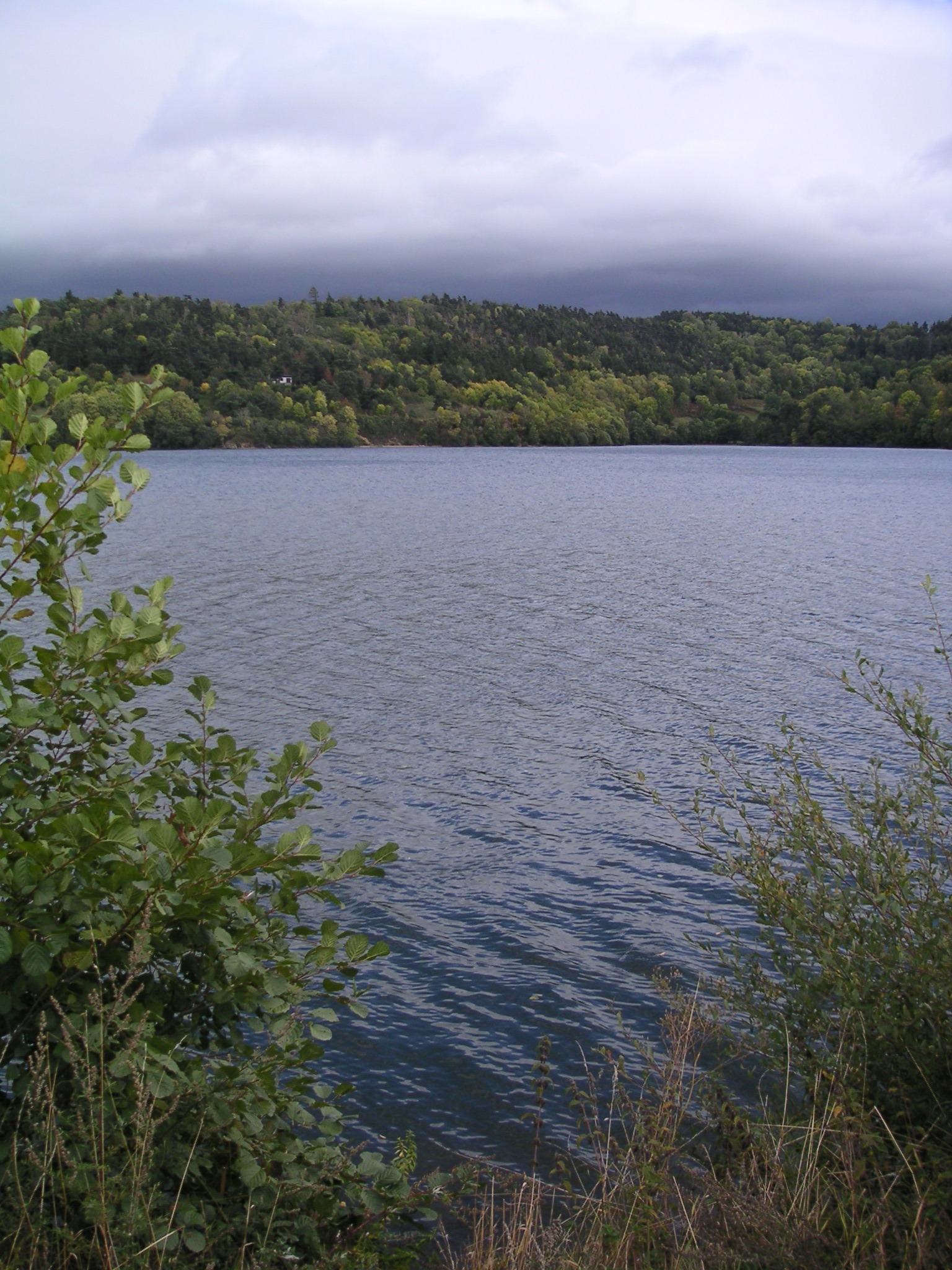 Lac d'Aydat, Auvergne by Moala